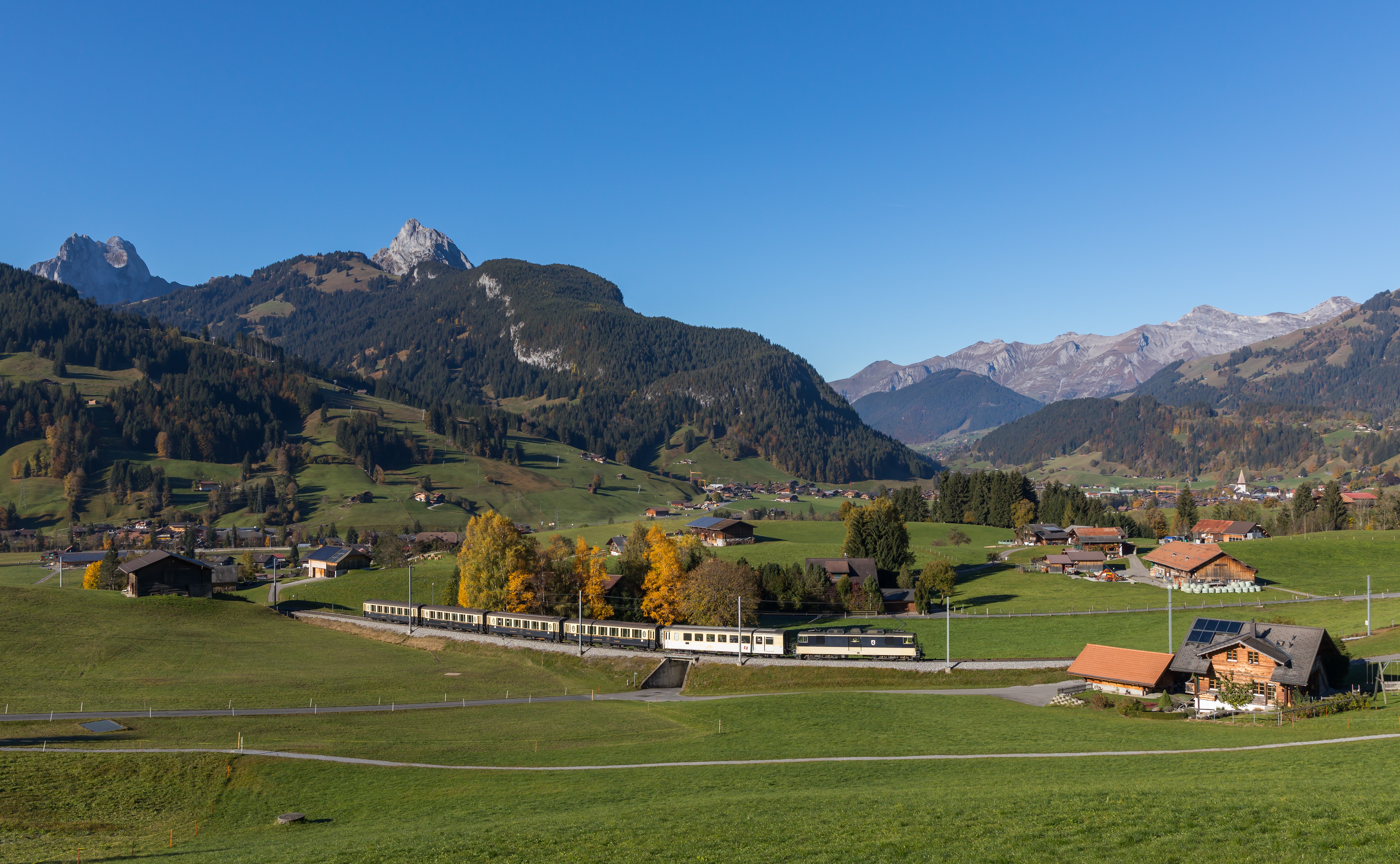 GDe 4/4 6004 hauls a Golden Pass Classic train from Montreux to Zweisimmen. Pictured between Gstaad and Gruben, Switzerland.